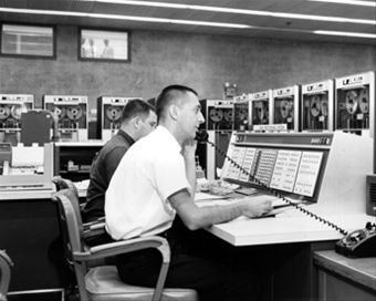 OCAMA Electronic Data Processing Center with IBM 7080, at Tinker Air Fore Base, ca 1962